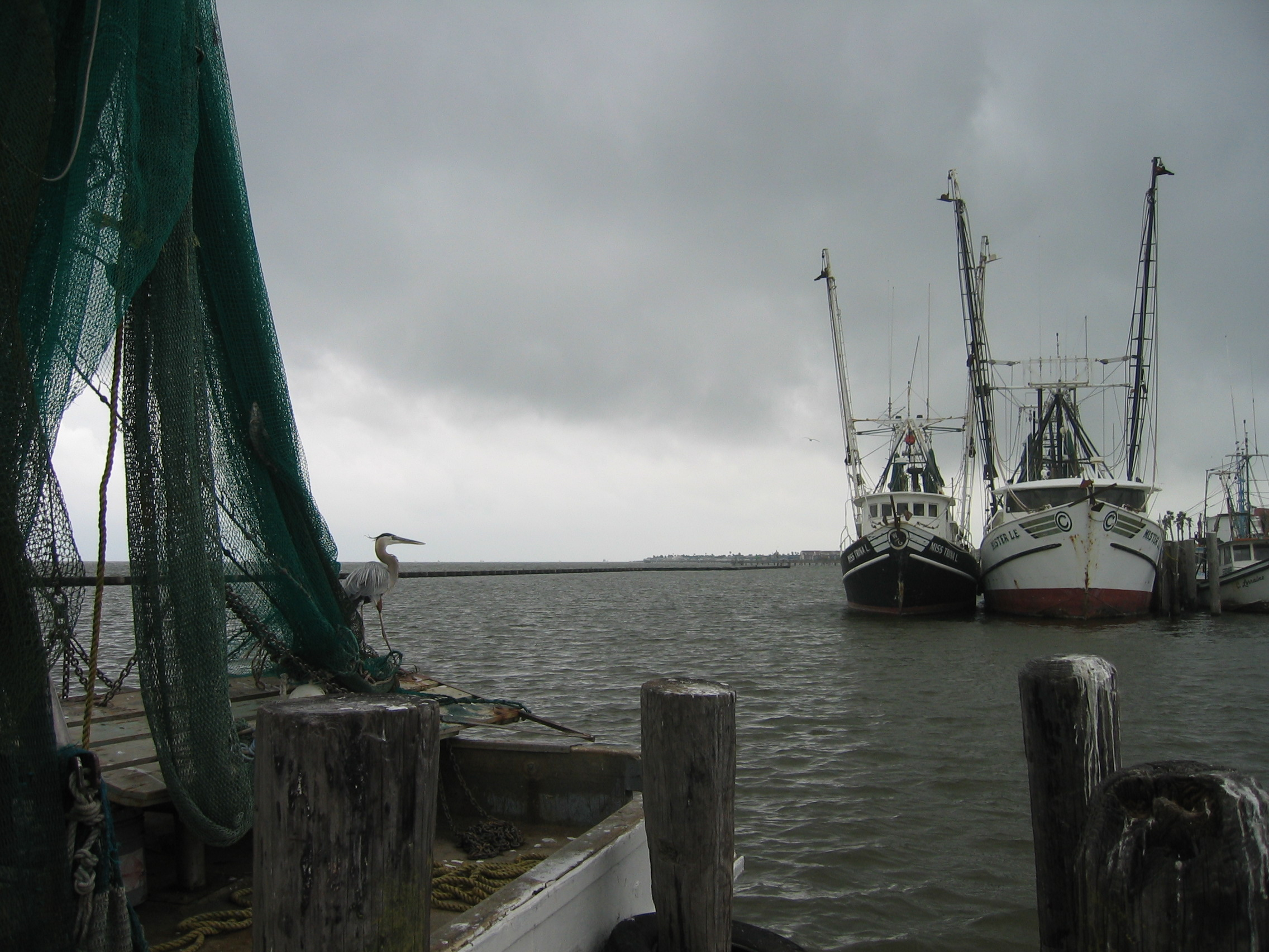 The Fulton, Texas, harbor offers a city dock featuring slips for commercial fishing boats, live-aboard vessels, and recreation boats.